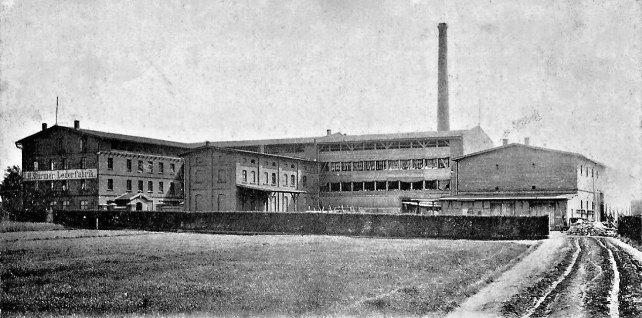 Leather factory J. H. Stuermer in Goldschmieden (1928 merged with Breslau, now Wroclaw), part of picture postcard issued around 1902